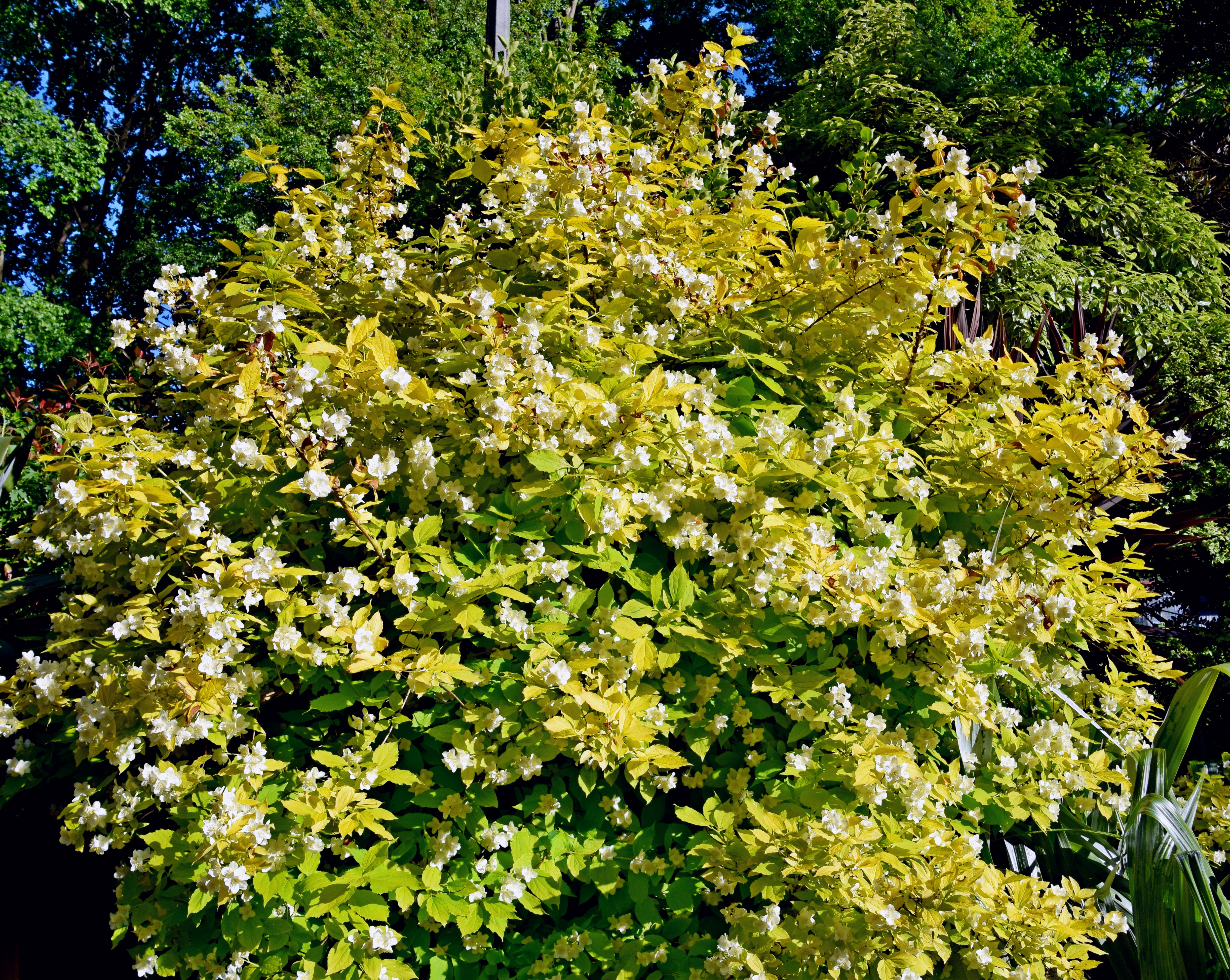 Philadelphus coronarius 'Aureus' in Dunedin Botanic Garden, Dunedin, New Zealand